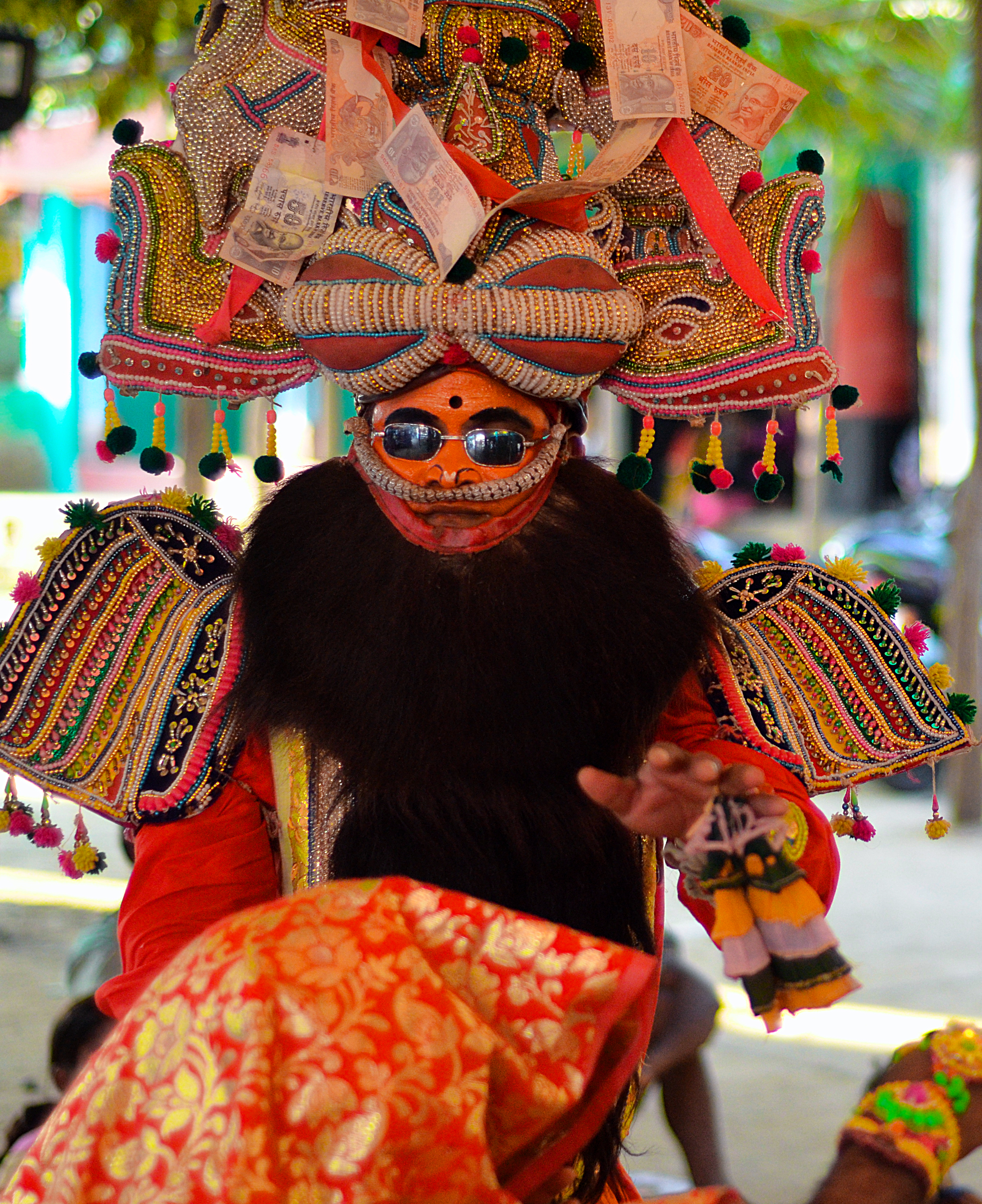 The Prahallada Nataka is a critically endangered folk theatre form of the Ganjam district of Odisha in which the tale of Vishnu's man-lion incarnation Nrusingha (alternatively spelled Narasimha) is enacted. The play can last for well over 20 hours at a stretch and the costumes, music, movements & dialogues are complex. This image is of the scene in which Hiranyakasipu placates his wife Lilabati. The character of Hiranyakasipu is being enacted by Mr. A. Rajendra Patra. The image was captured in the Nimakhandapenthi village of Digapahandi block in Ganjam district, Odisha on 27th February 2018 under a crowdfunded project to document the entire performance of Prahallada Nataka that is in vogue today. ଓଡ଼ିଆ: ଗଞ୍ଜାମ ପ୍ରହଲ୍ଲାଦ ନାଟକ ଏକ ବିରଳ ଲୋକନାଟକ ଶୈଳୀ ଯହିଁରେ ବିଷ୍ଣୁଙ୍କ ନରସିଂହ ଅବତାରର କାହାଣୀ ଅଭିନୀତ ହୁଏ । ଏହା ଏକାଥରେ ୨୦ ଘଣ୍ଟାରୁ ବି ଅଧିକ ସମୟ ଯାଏଁ ଚାଲିପାରେ ଓ ଏହାର ନୃତ୍ୟ, ଗୀତ, ଅଭିନୟ ଆୟତ୍ତରେ କରିବା ଅତ୍ୟନ୍ତ କଷ୍ଟସାଧ୍ୟ । ଏହି ଚିତ୍ରଟି ହିରଣ୍ୟକଶ୍ୟପ ନିଜ ସ୍ତ୍ରୀ ଲୀଳାବତୀକୁ ବିନୟ କରିବା ଦୃଶ୍ୟର । ହିରଣ୍ୟକଶ୍ୟପ ଚରିତ୍ରରେ ଶ୍ରୀ ଏ ରାଜେନ୍ଦ୍ର ପାତ୍ର ଅଭିନୟ କରୁଅଛନ୍ତି। ଏହି ଚିତ୍ରଟି ଗଞ୍ଜାମ ଜିଲ୍ଲା ଦିଗପହଣ୍ଡି ବ୍ଲକର ନିମଖଣ୍ଡପେଣ୍ଠି ଗାଆଁରେ ୧ ଫେବୃଆରୀ ୨୦୧୮ରେ ଏକ ପ୍ରହଲ୍ଲାଦ ନାଟକ ଅଭିନୀତ ହେବା କାଳେ ଉଠାହୋଇଥିଲା । ବର୍ତ୍ତମାନ କାଳରେ ପ୍ରହଲ୍ଲାଦ ନାଟକର ପରମ୍ପରା ଓ ଅଭିନୟକୁ ସମ୍ପୂର୍ଣ୍ଣରୂପେ ଡକ୍ୟୁମେଣ୍ଟ କରି ସାଇତିରଖିବା ପାଇଁ ଆରବ୍ଧ ଏକ ନୂଆ ପ୍ରକଳ୍ପର ଏହା ଏକ ଅଂଶ ।